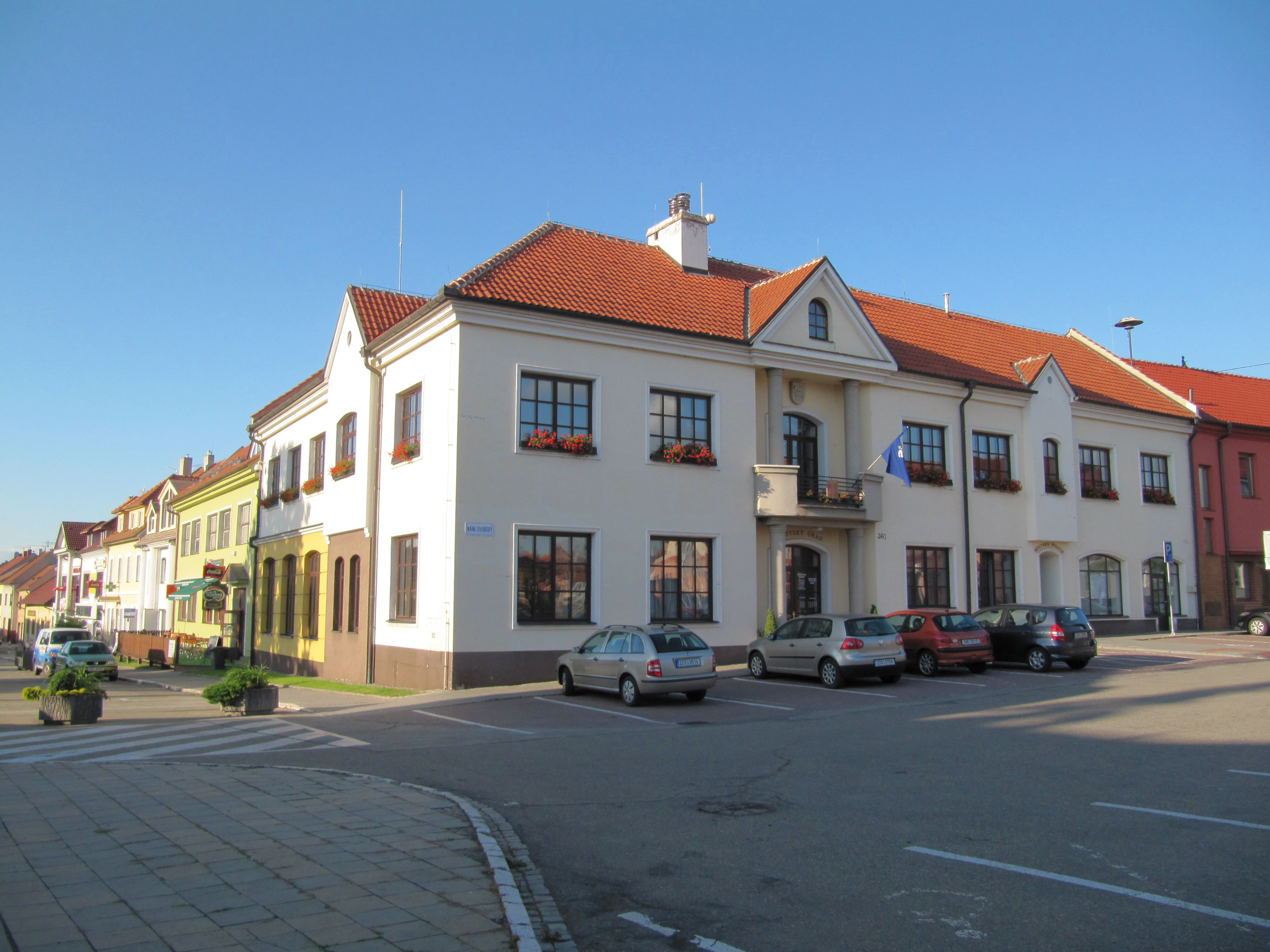 Kunovice in Uherské Hradiště District, Czech Republic. Square Náměstí Svobody, town hall.